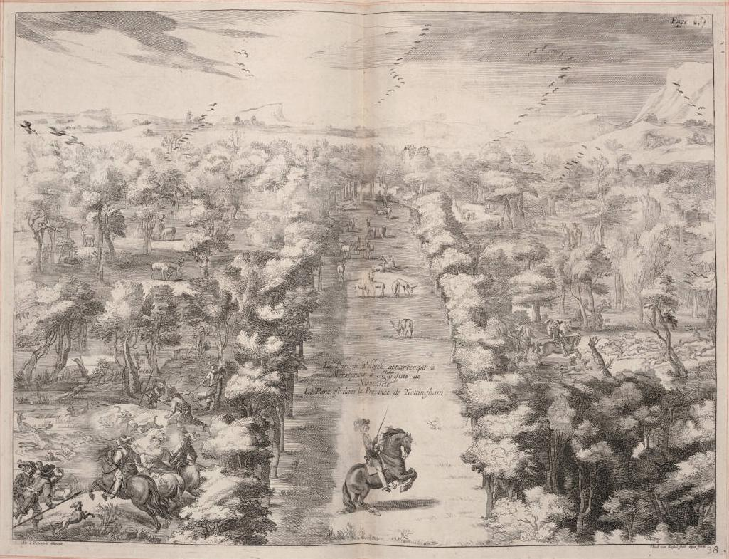 Le Parc de Welbeck appartenant a Monseigneur le Marquis de Niewcastle. Le Parc est dans la Province de Nottingham. engraving (reprinted 1743) by C. Caukercken, after Abraham van Diepenbeeck, from the first Duke of Newcastle's A general system of horsemanship in all its branches (Printed for J. Brindley, bookseller to His Royal Highness the Prince of Wales, in New Bond-street, 1743)